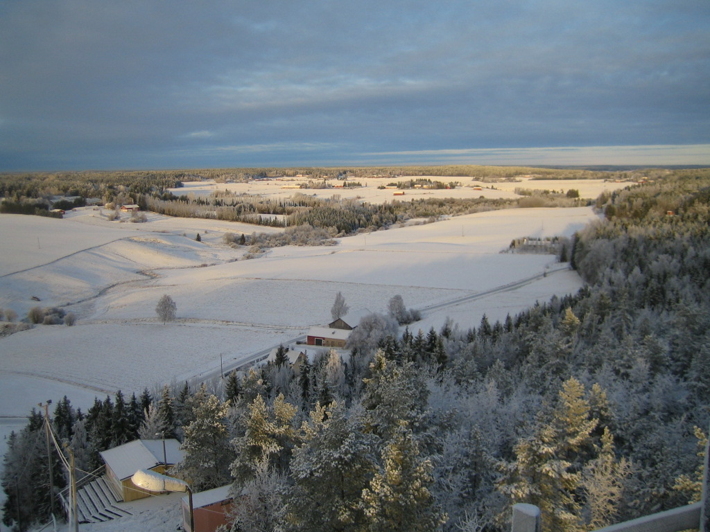 Countryside in Paimio, Finland, in the winter.